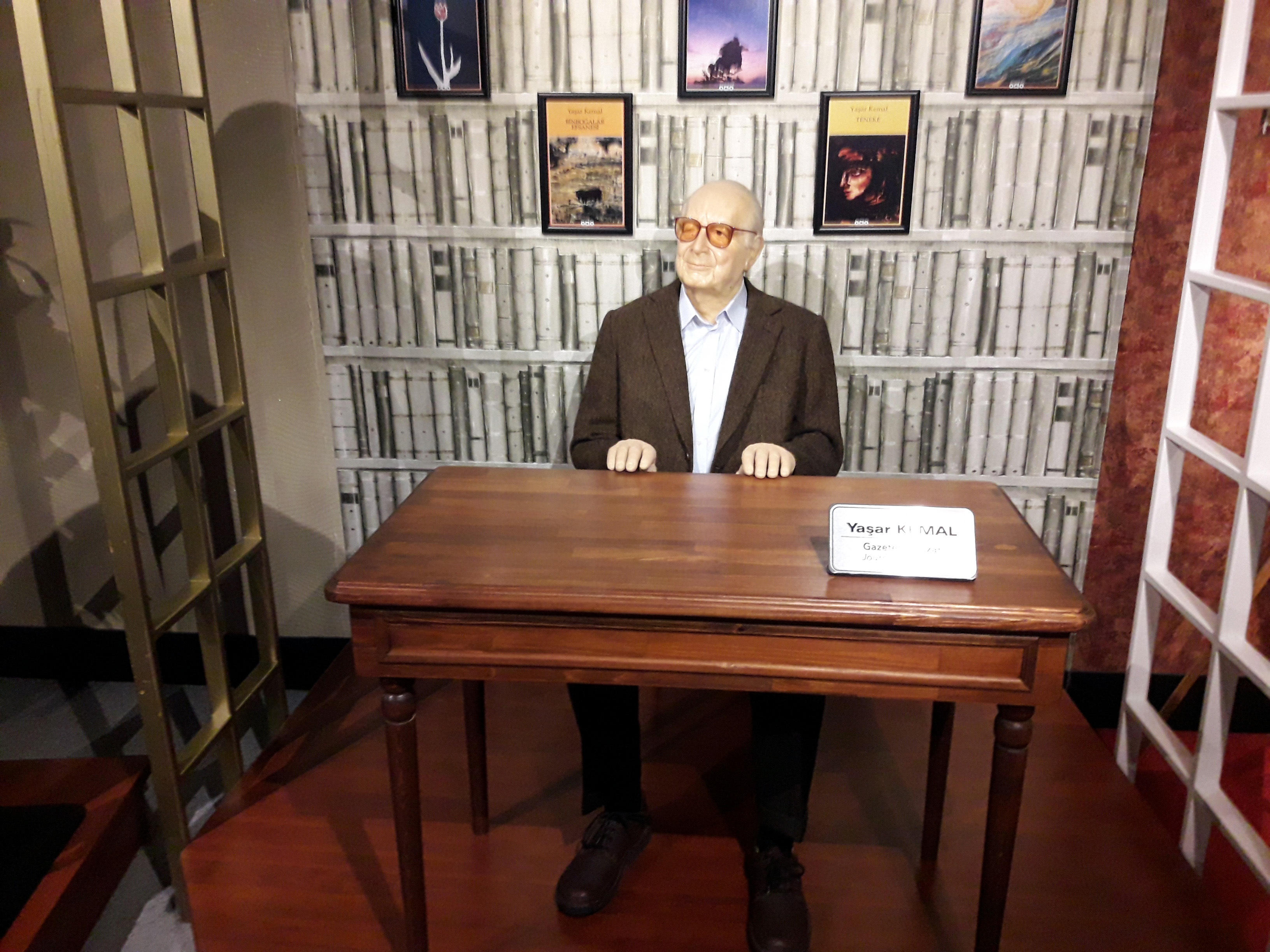 Yılmaz Büyükerşen wax Museum, Eskişehir (Yaşar Kemal)